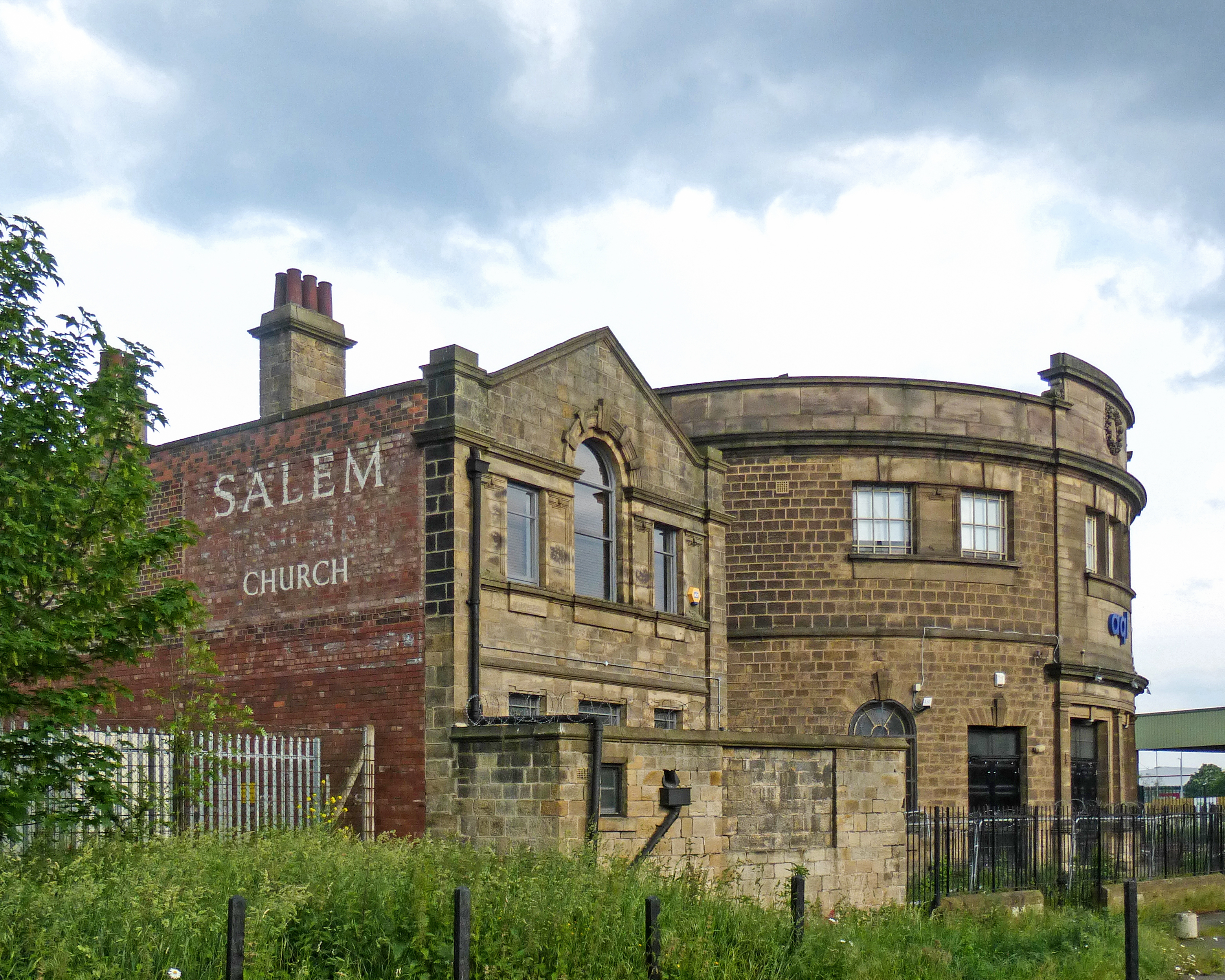 Salem United Reform Church, Hunslet Lane, Leeds LS10. Rear View.